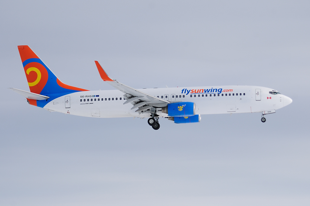 Sunwing Boeing 737-800 (registration SE-RHS) landing at Montréal-Pierre Elliott Trudeau International Airport in February 2010.